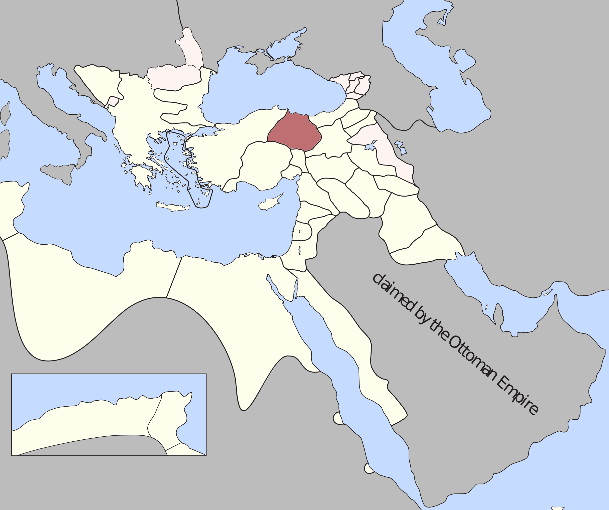 XY Eyalet, Ottoman Empire (1795). Source: A Brief History of the Late Ottoman Empire at Google Books By M. Sukru Hanioglu, Figure 1